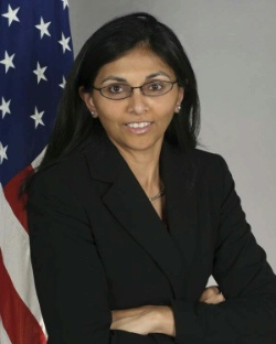 Nisha Biswal, Assistant Secretary of State for South and Central Asian Affairs as of 2015